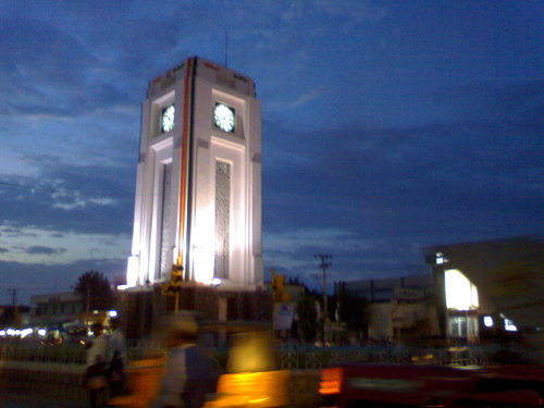 It is the Clock Tower located in Ananthapur.